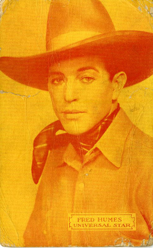 Fred Humes, Universal Studio Star